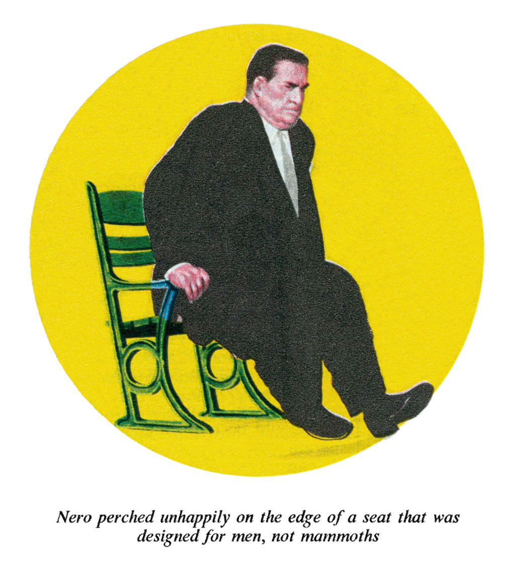 Illustration from The American Magazine printing of "This Won't Kill You", a Nero Wolfe short story by Rex Stout that first appeared under the title "This Will Kill You"